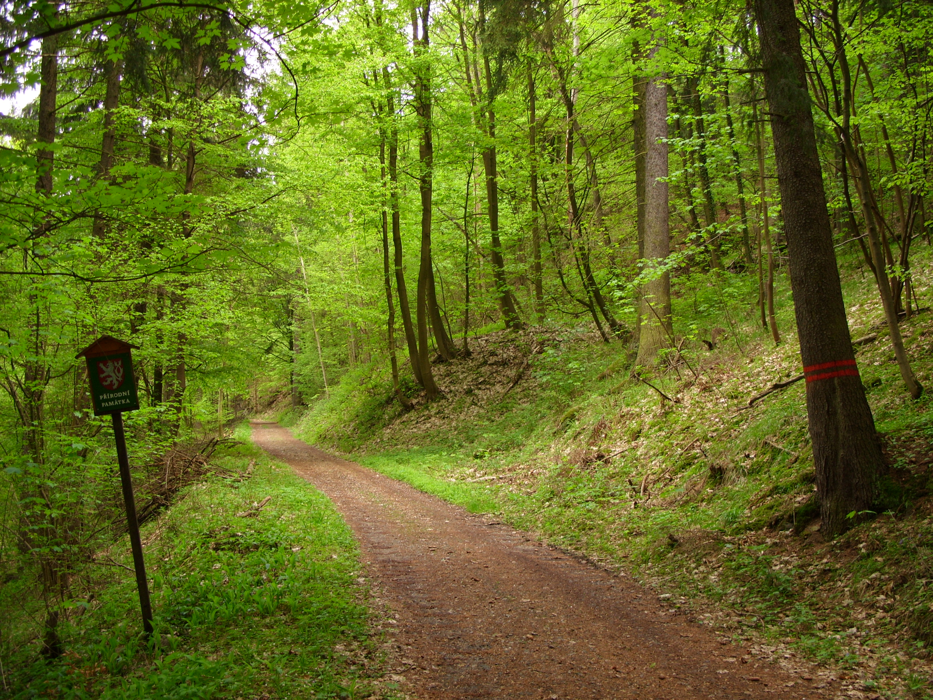 Natural monument "Na Stříbrné", south-west entry on a red tourist track in Benešov District, Czech Republic